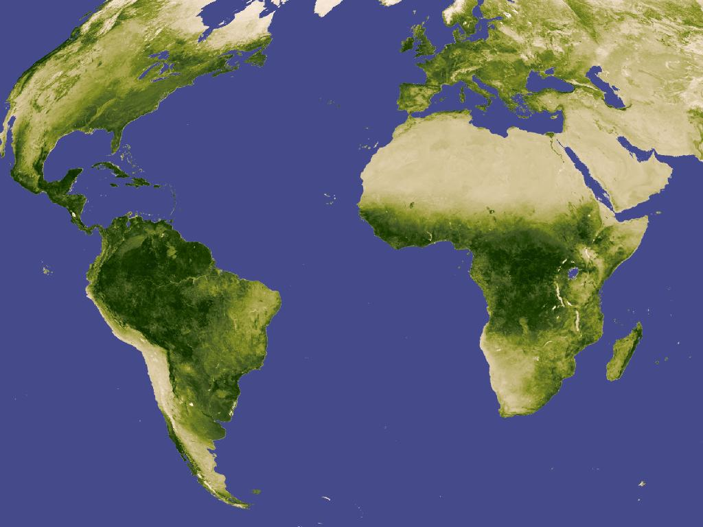 Food, fuel and shelter: vegetation is one of the most important requirements for human populations around the world. Satellites monitor how "green" different parts of the planet are and how that greenness changes over time. These observations help scientists understand the influence of natural cycles, such as drought and pest outbreaks, on vegetation, as well as human influences, such as land-clearing and global warming.